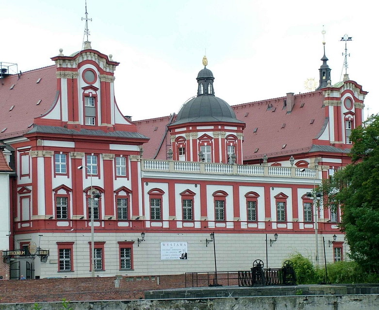 Ossolineum, Wroclaw, AD 2005